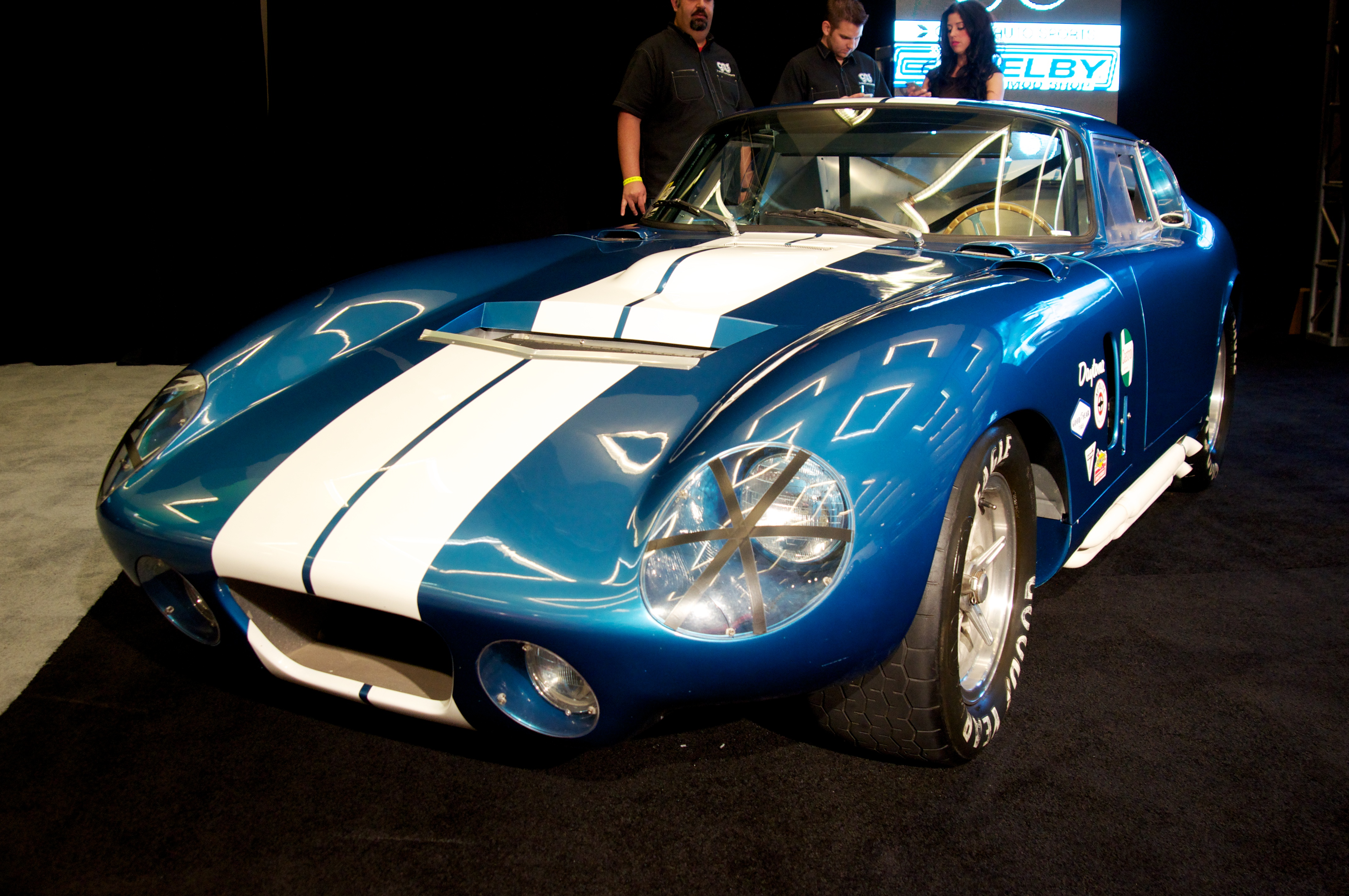 Seen at the 2012 Los Angeles Auto Show. Press day - Wednesday, November 28th. If you use one of my photos, please be so kind as to attribute me and link back to the photo's page. THANK YOU!